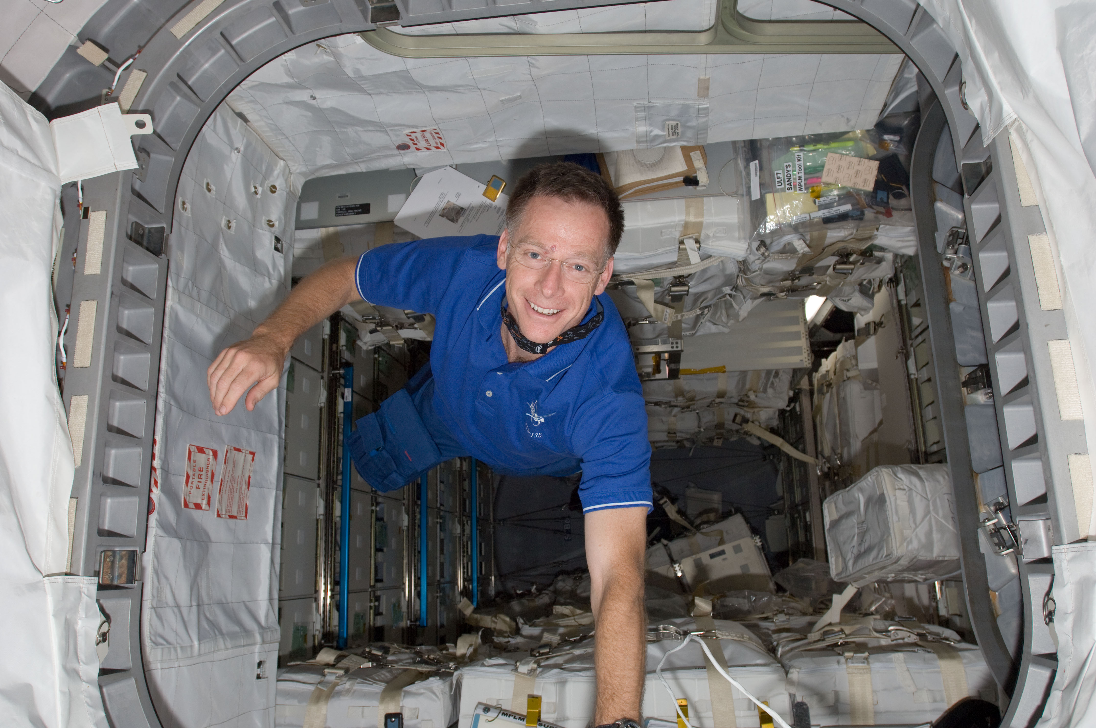 This image shows NASA astronaut Chris Ferguson, STS-135 commander, in the Raffaello multi-purpose logistics module. The photo serves as the "after" shot following a great amount of work by joint crews from Atlantis and the International Space Station to transfer supplies to and from the two spacecraft. Approximately a week earlier Ferguson posed for the "before" version.